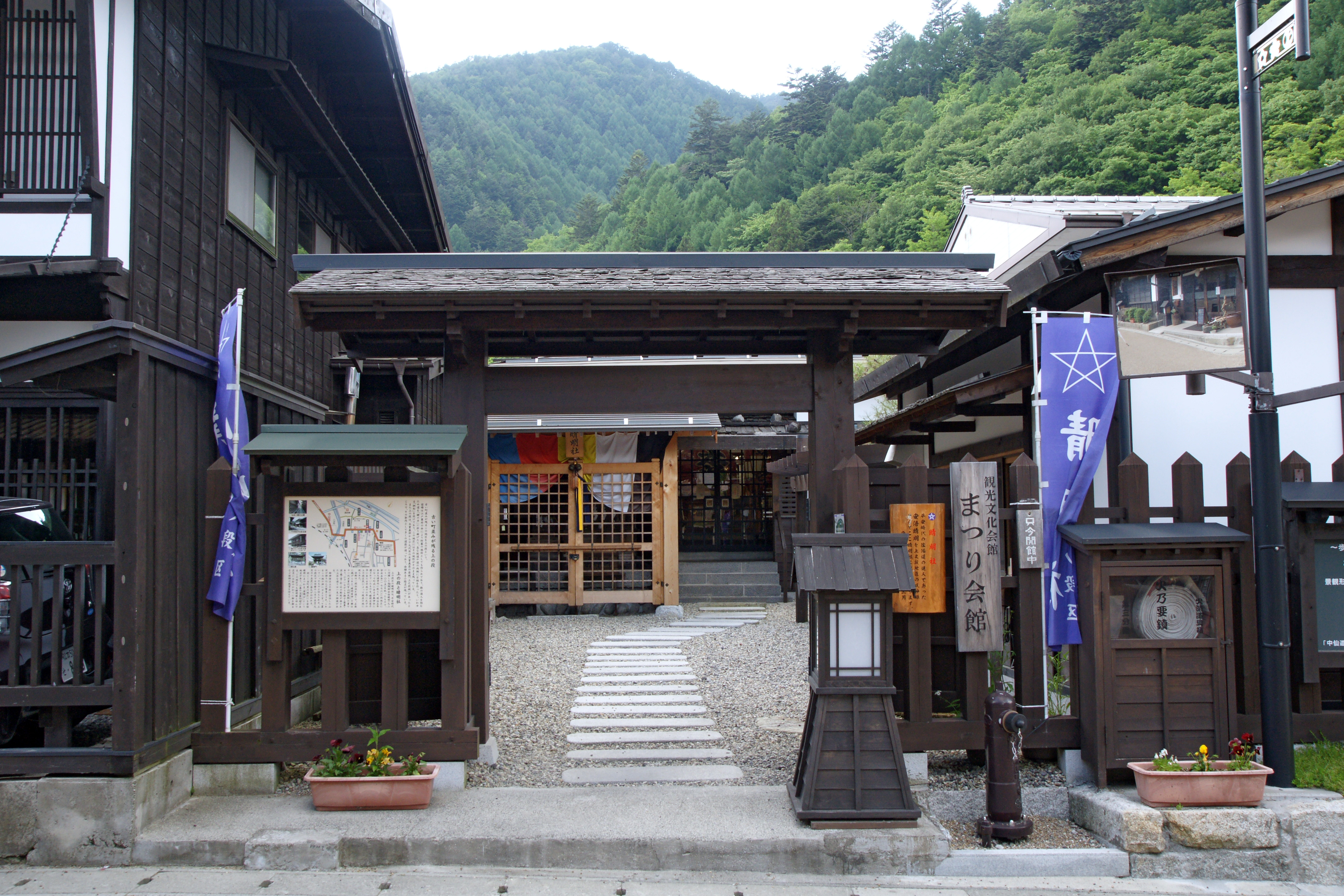 Nakasendō at Kiso, Nagano prefecture, Japan